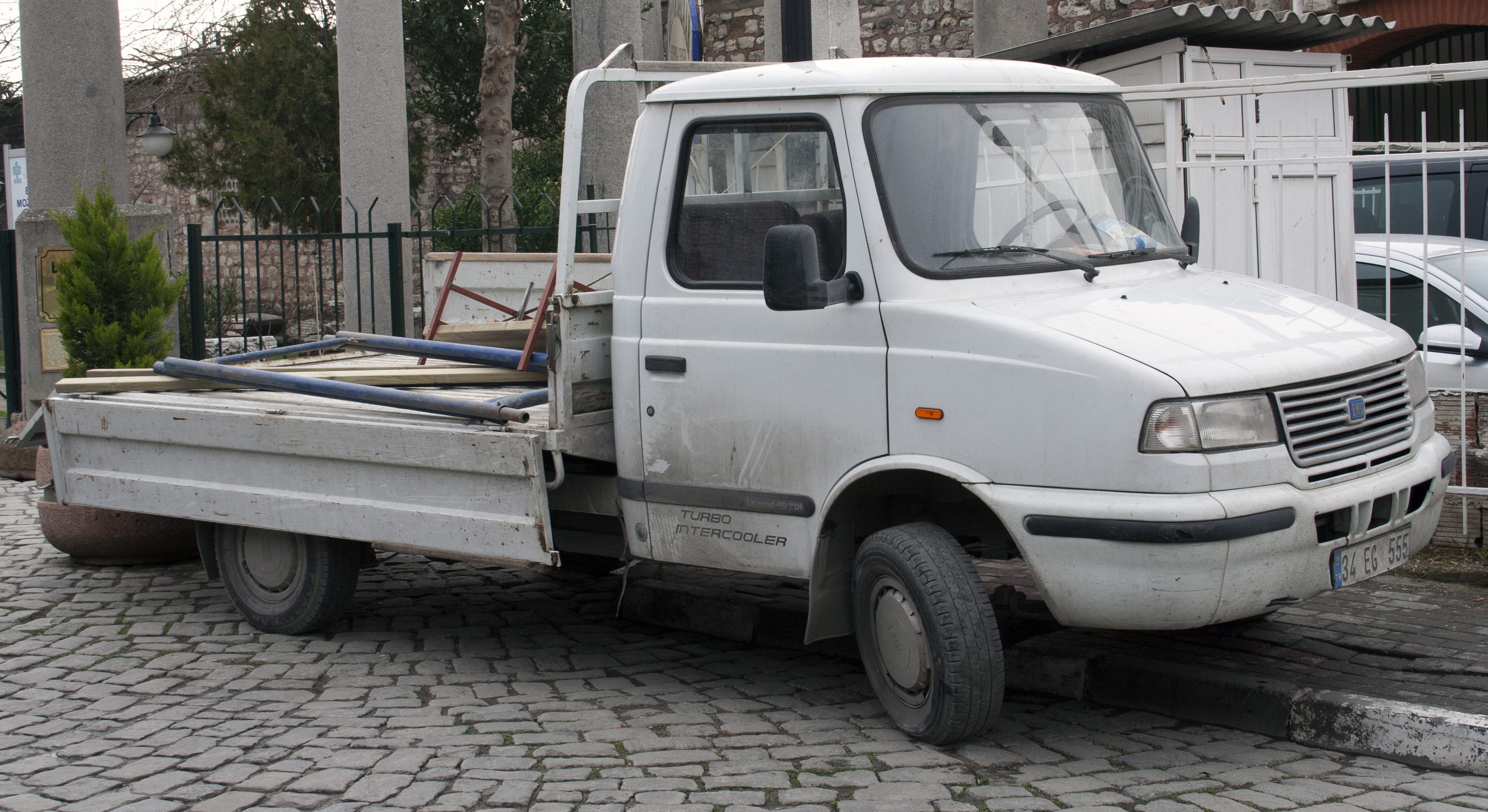 BMC Levend 80 TDI Turbo Intercooler. Short bonneted version, it is also built as a cab-over.